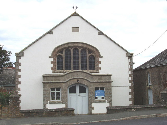 St Merryn Methodist Church. Next to the school.